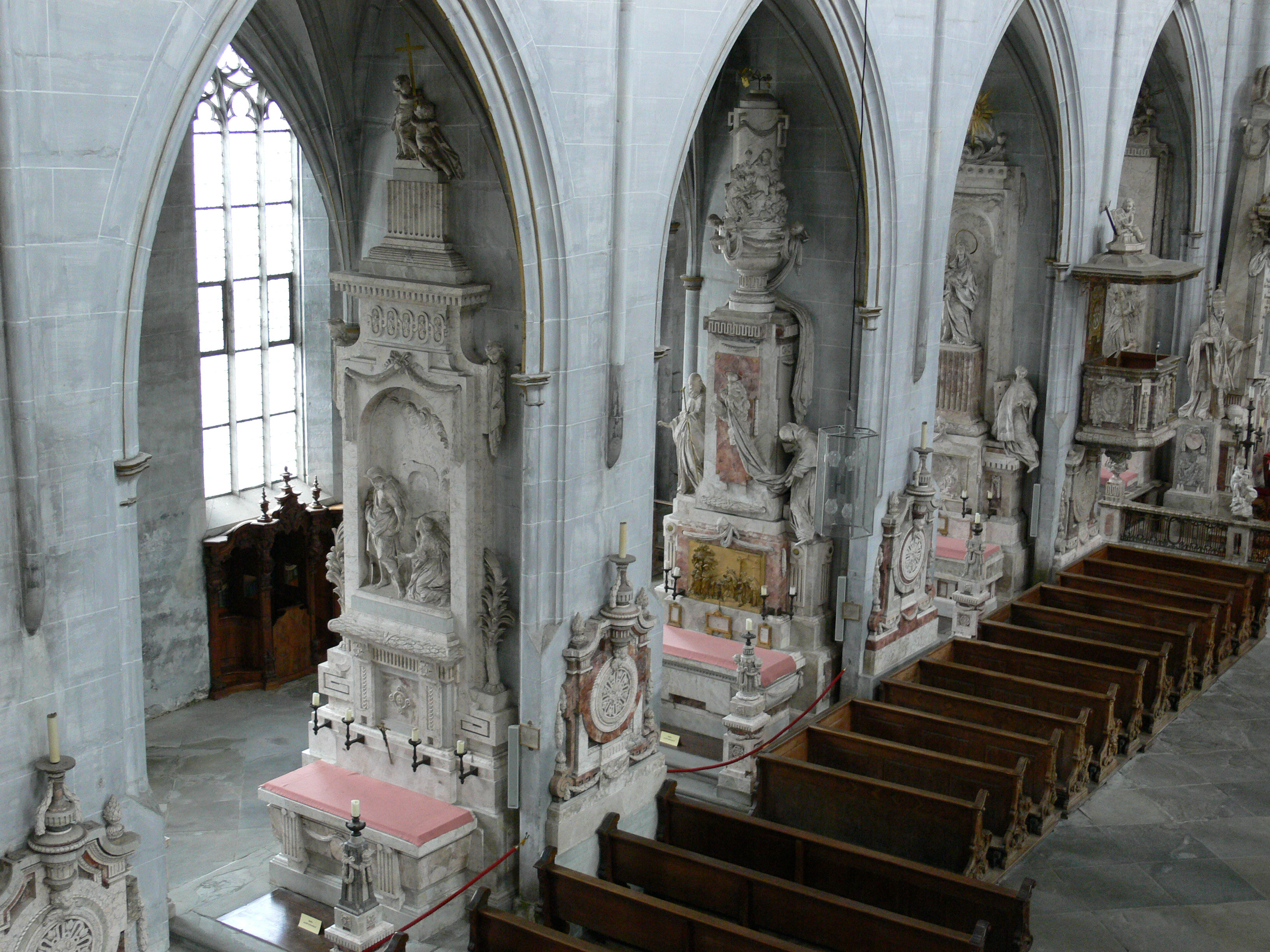 Description: Nebenaltäre links Source: User:Saberhagen Location: Salemer Münster, Salem (Baden), Germany Source: own photograph by uploader